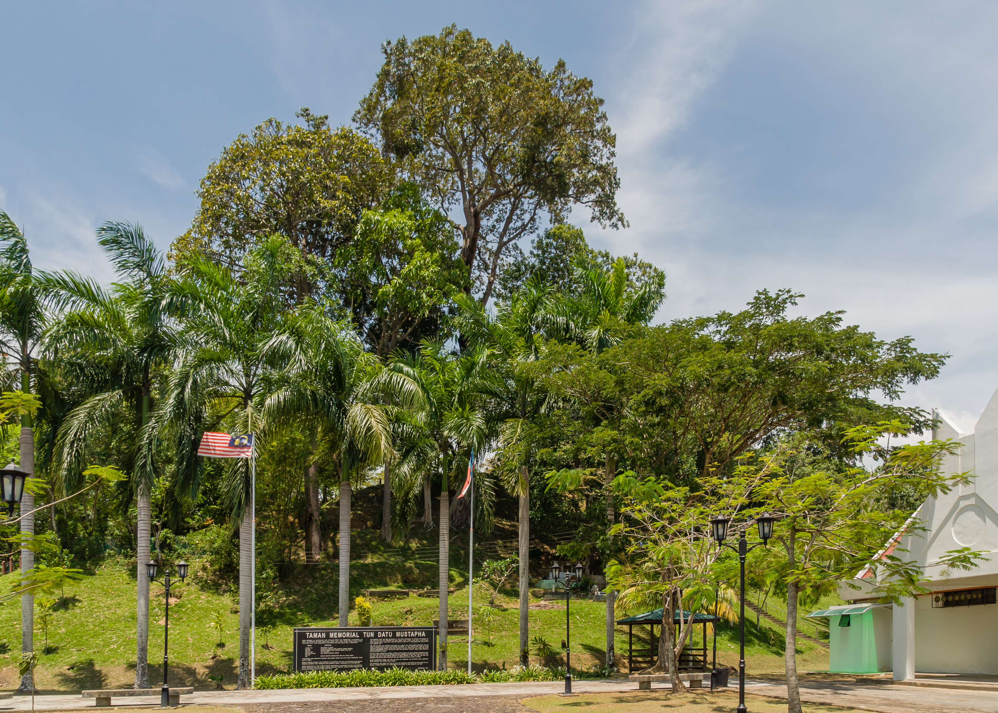 Putatan, Sabah: Taman Memorial Tun Datu Mustapha